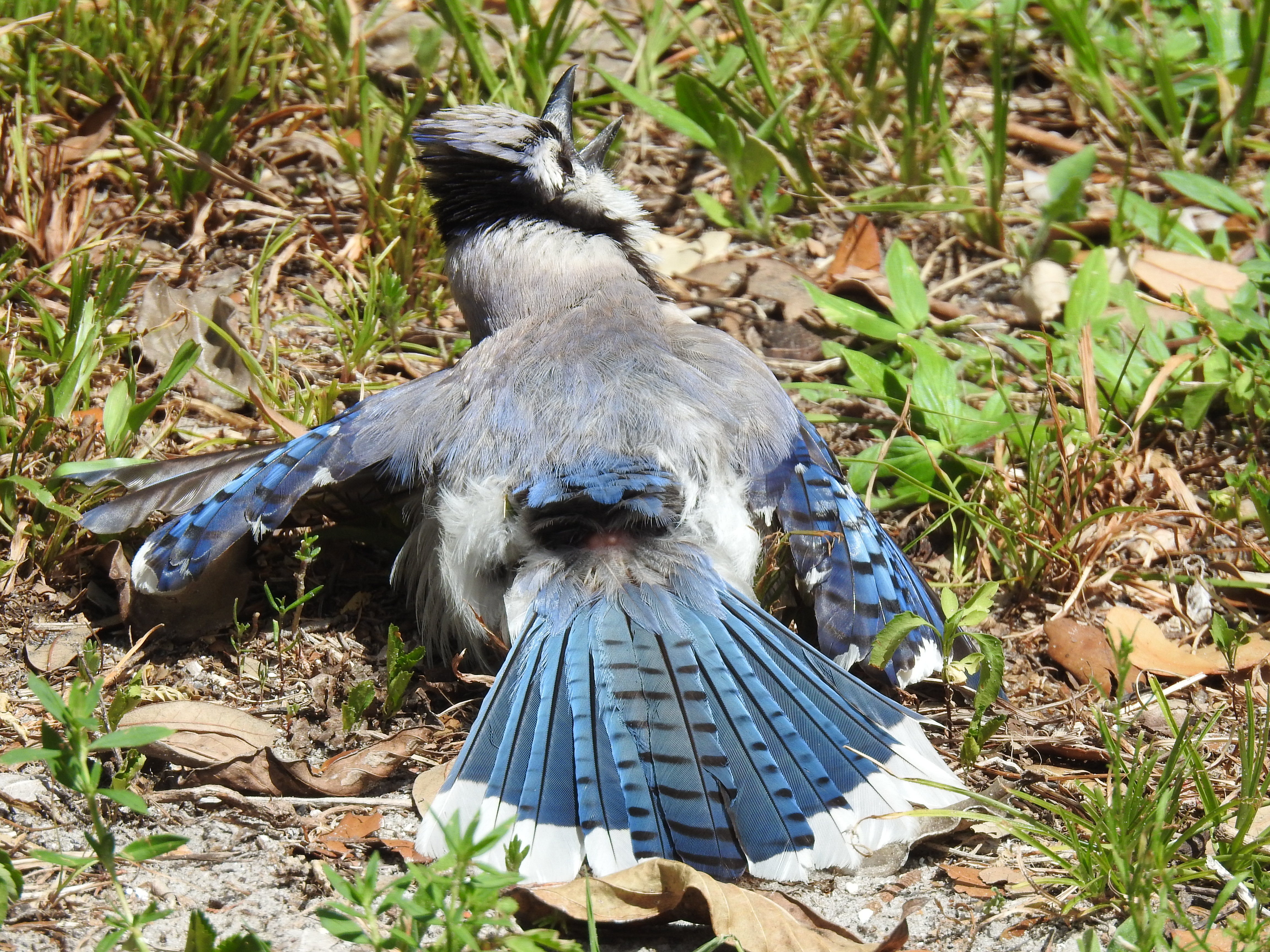 Blue Jay anting in my backyard, showing uropygial gland well